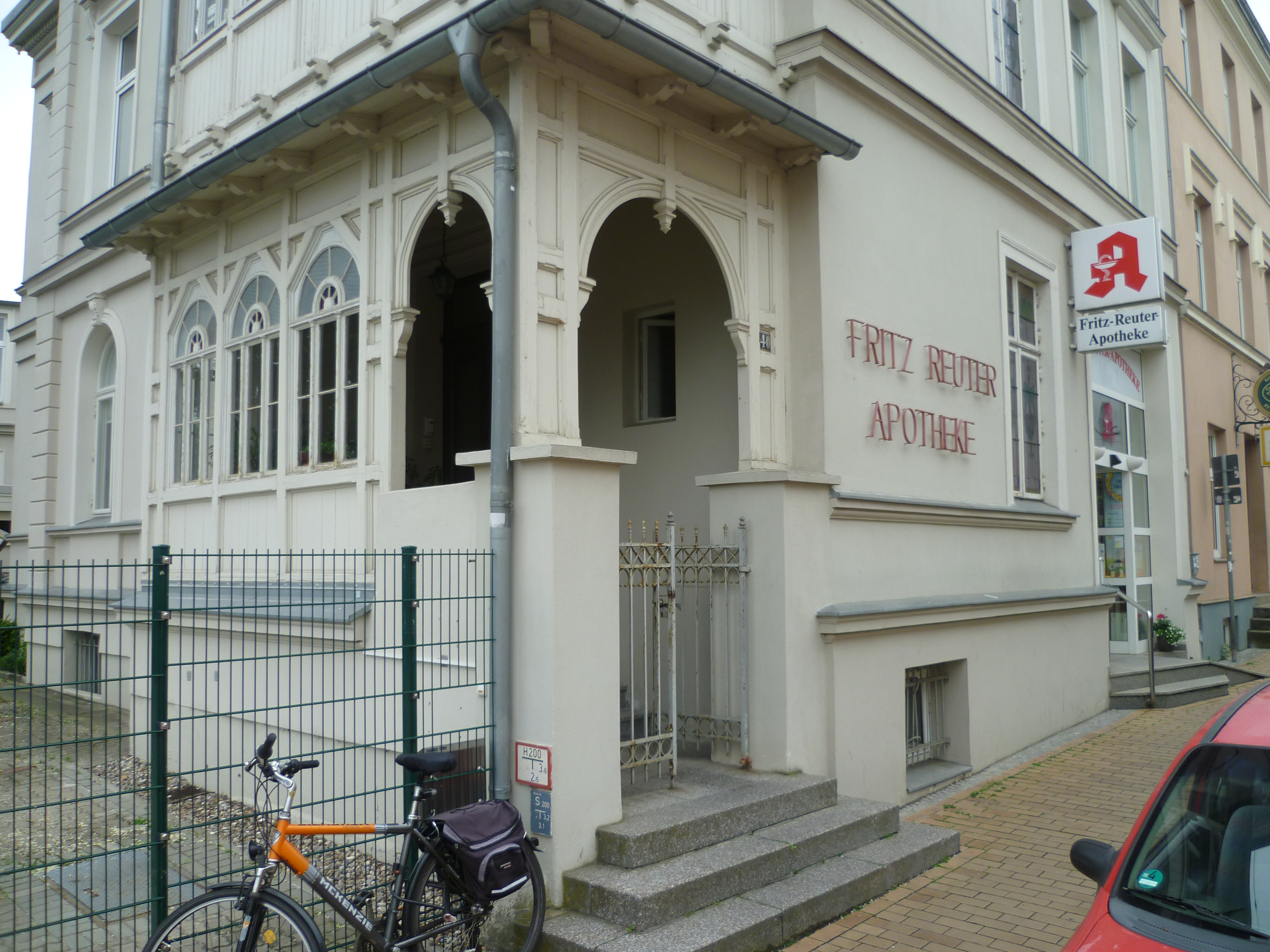 Pharmacy Store with name Fritz Reuter. Wittenburger Strasse 40 is a listed building in Schwerin in Mecklenburg-Vorpommern.